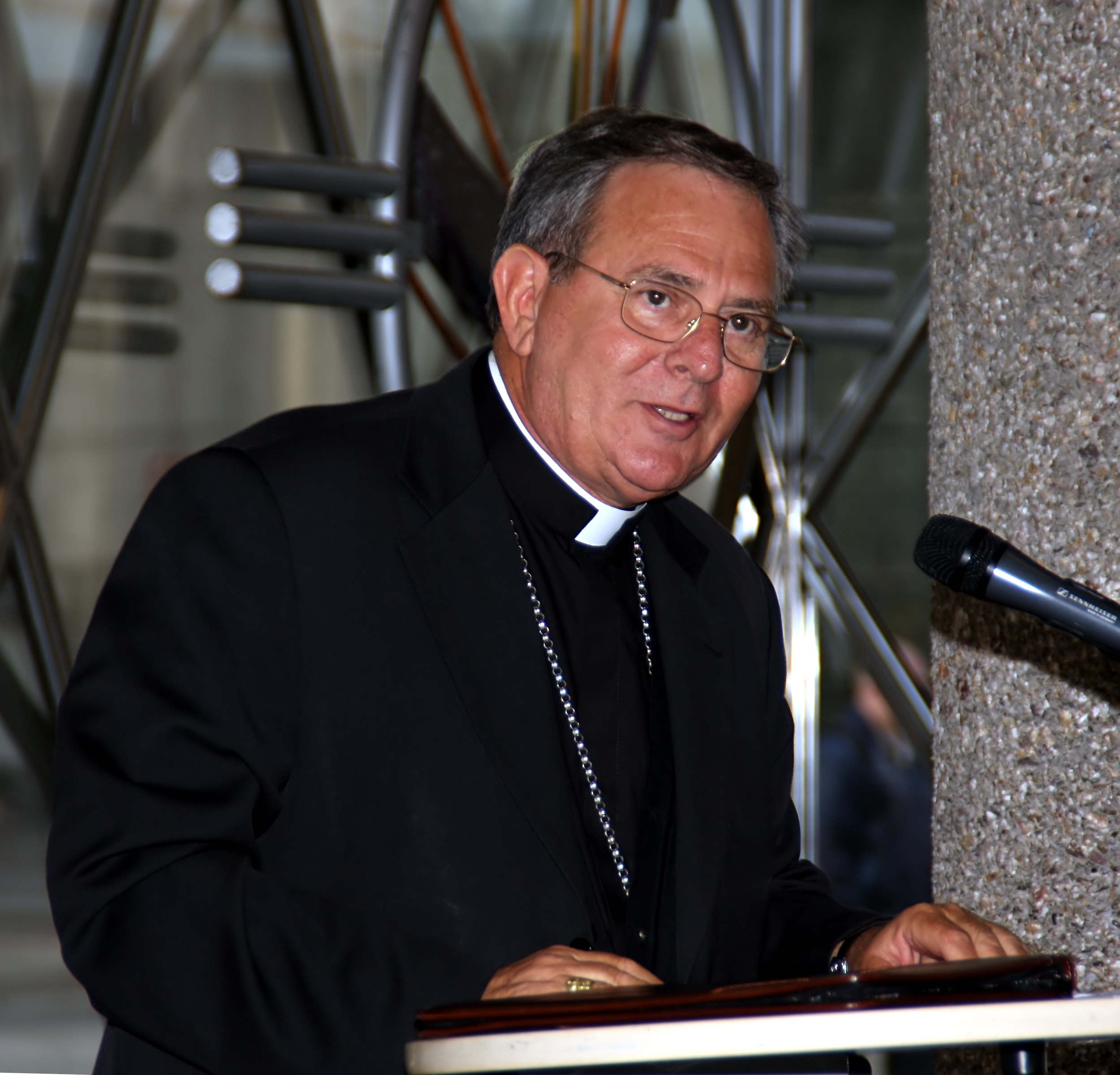 Luigi Padovese; Capuchin, Roman Catholic bishop of the Roman Catholic Apostolic Vicariate of Anatolia, Turkey, at a talk about Saint Paul in 2009 in Cologne, Germany